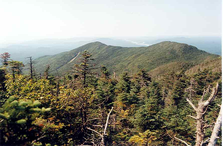 Mt. Emmons and Mt. Donaldson seen from Mt. Seward, Adirondacks, NY